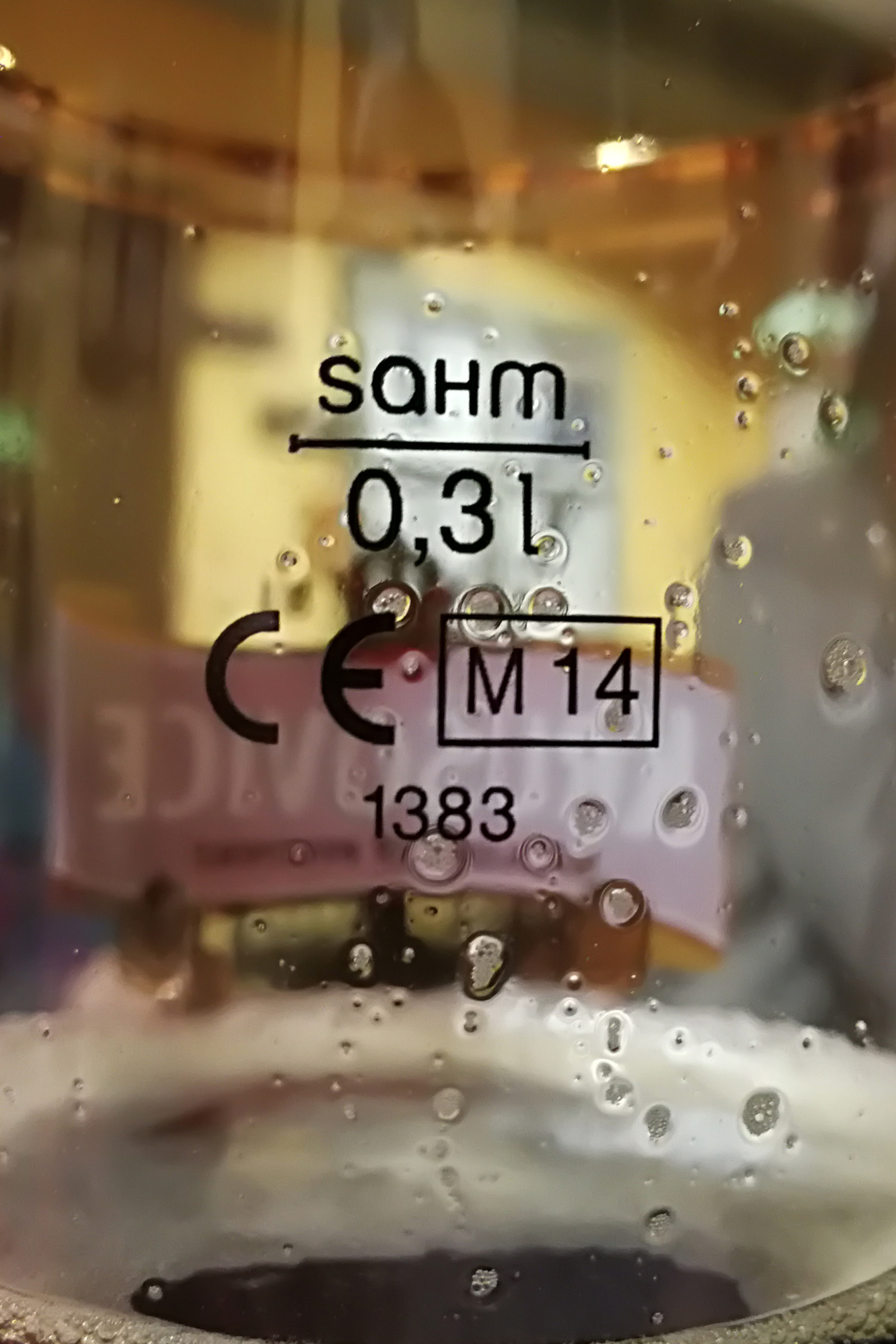 0.3 litre beer glass Royal Brewery of Krušovice CE